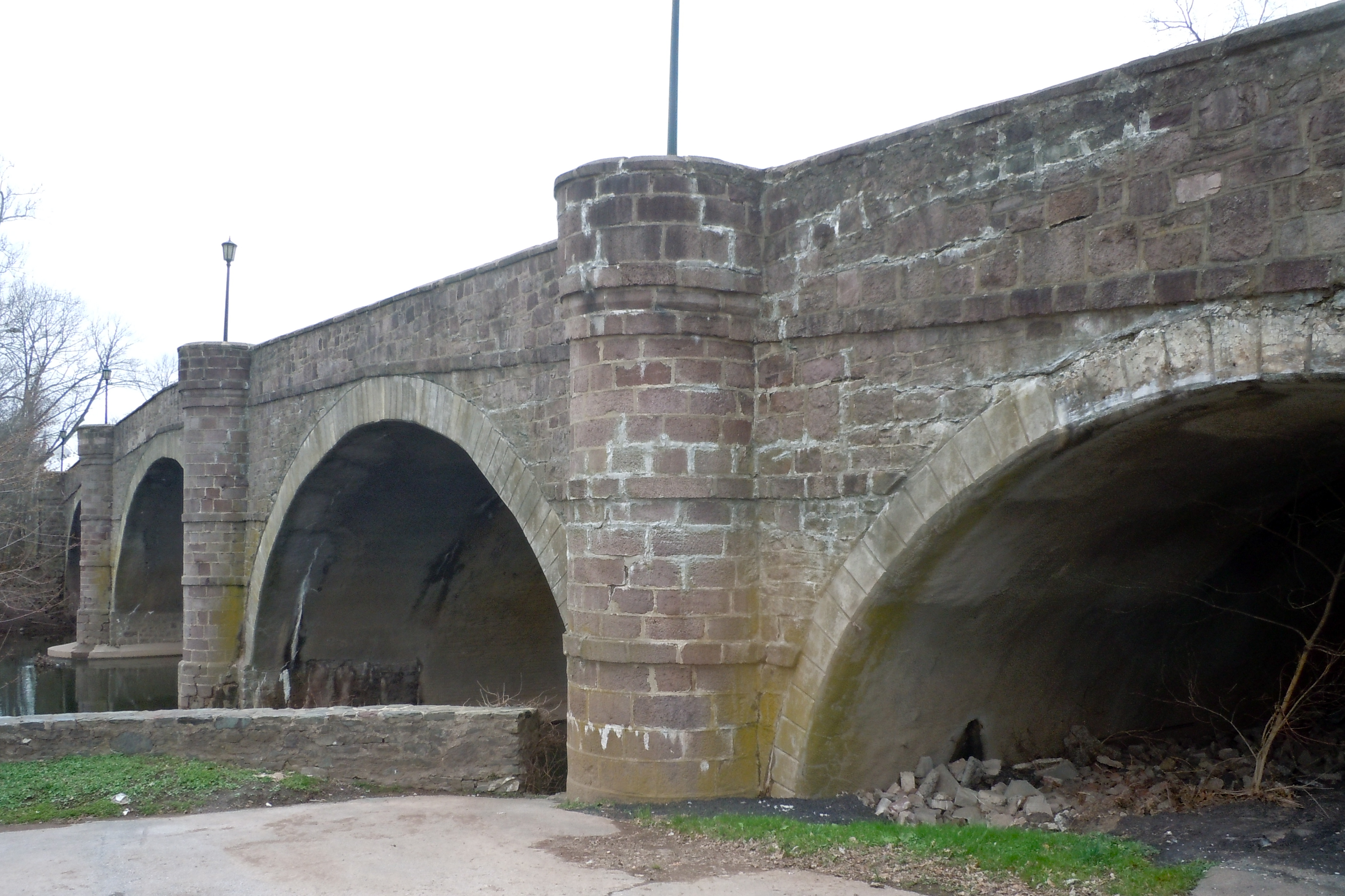 North side of the Perkiomen Bridge on the NRHP in Collegeville, Montgomery County, Pennsylvania. Built 1799, expanded 1923.